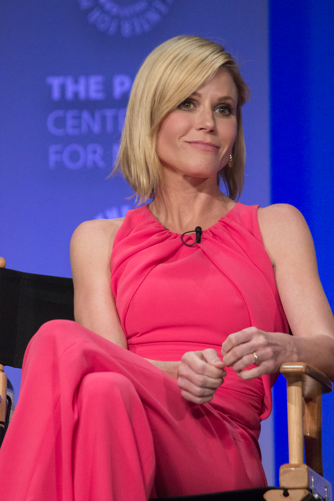 Actress Julie Bowen at the 2015 PaleyFest for the show "Modern Family"